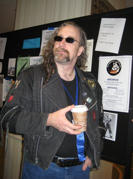 Anthony Prior